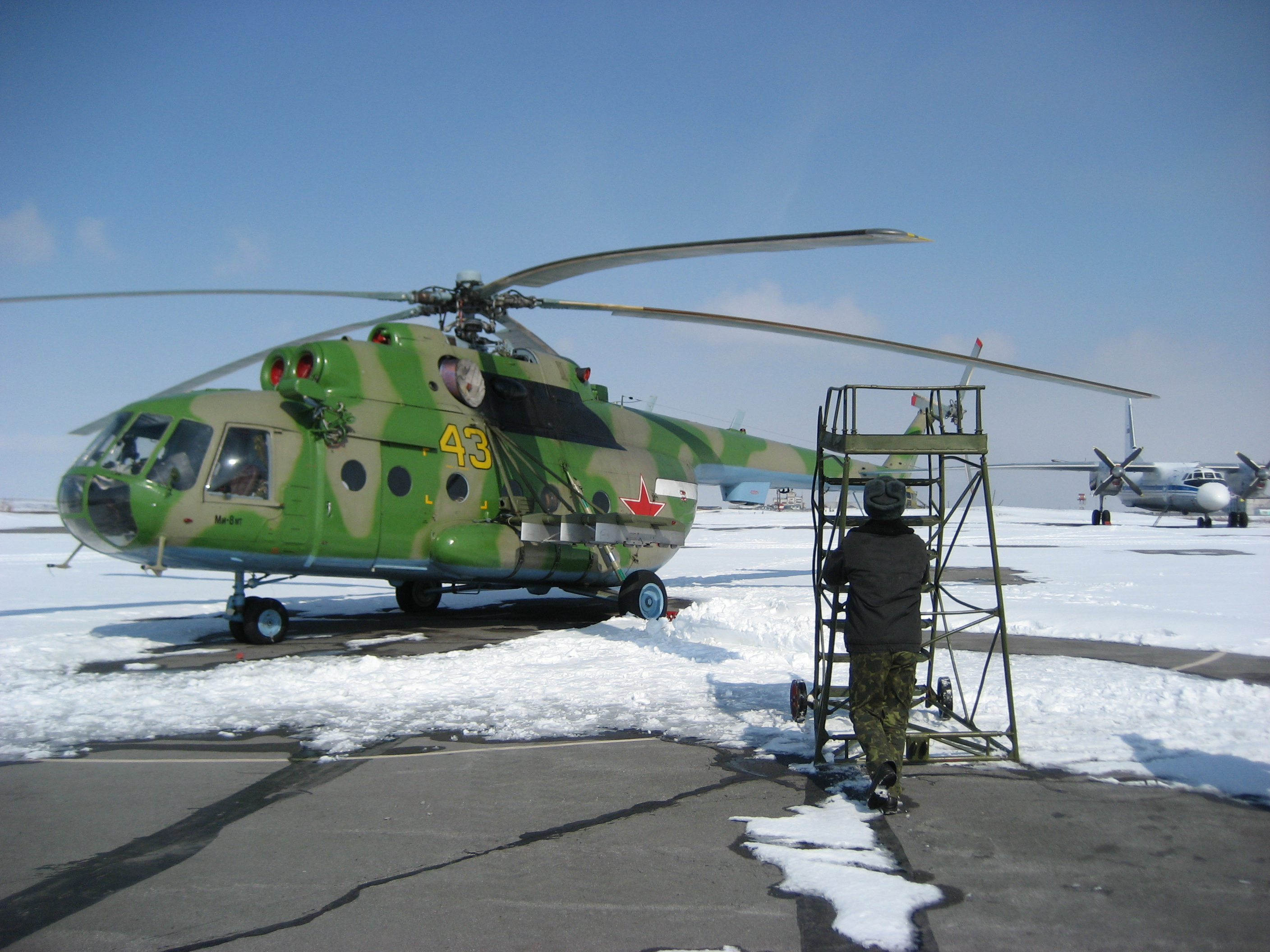 Mil Mi-8MT in Russia.